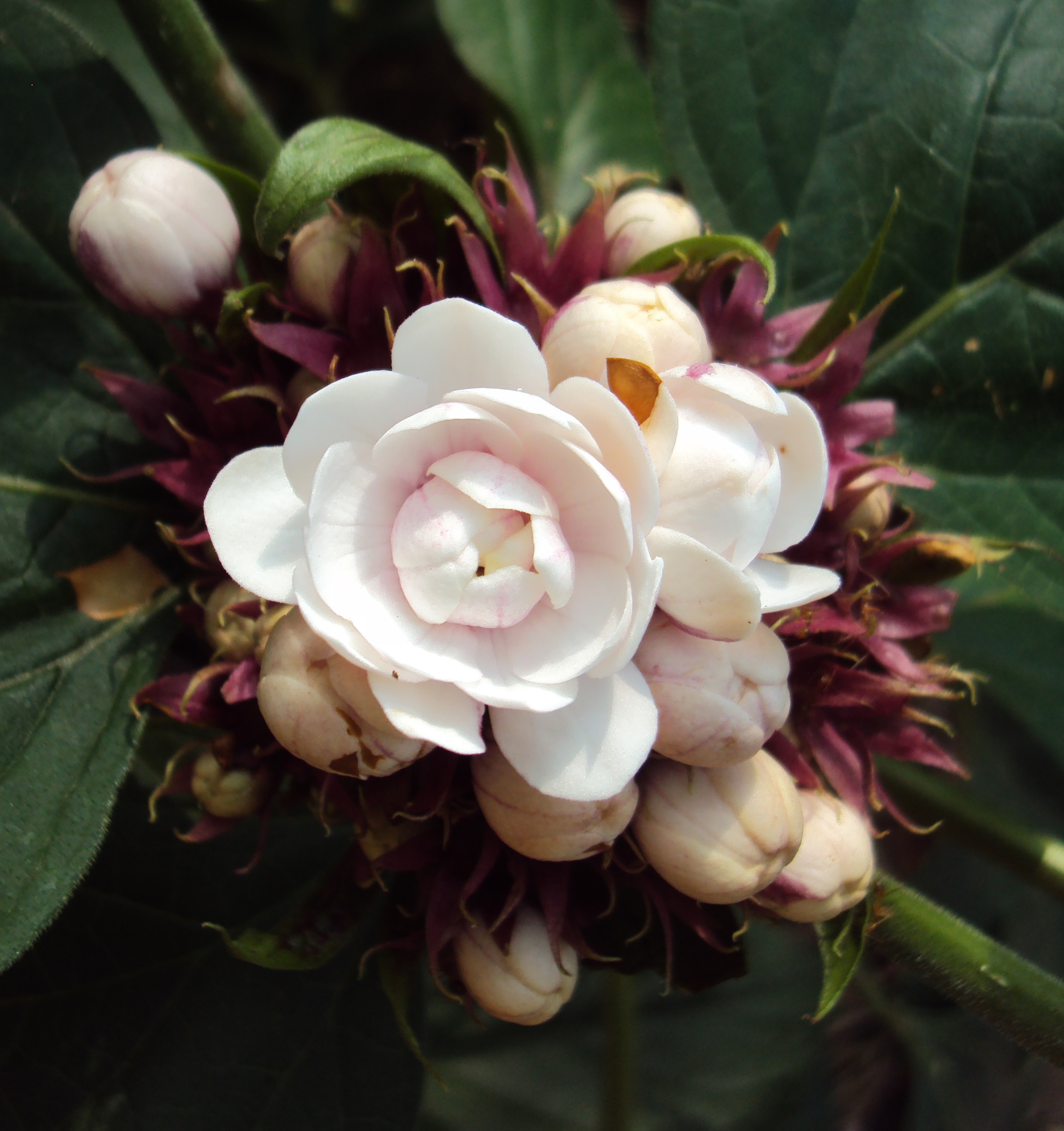 Clerodendrum chinense